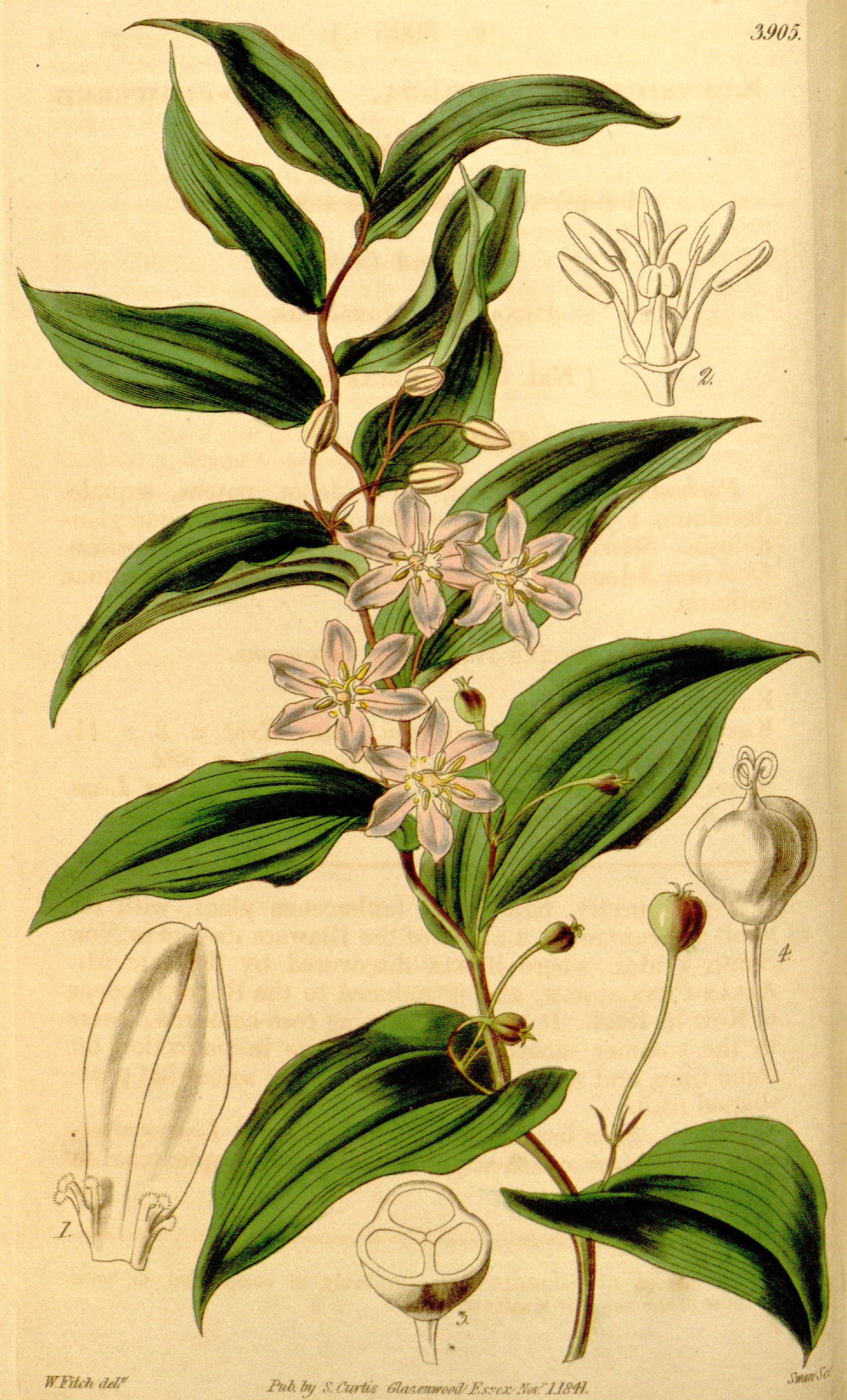 Schelhammera multiflora